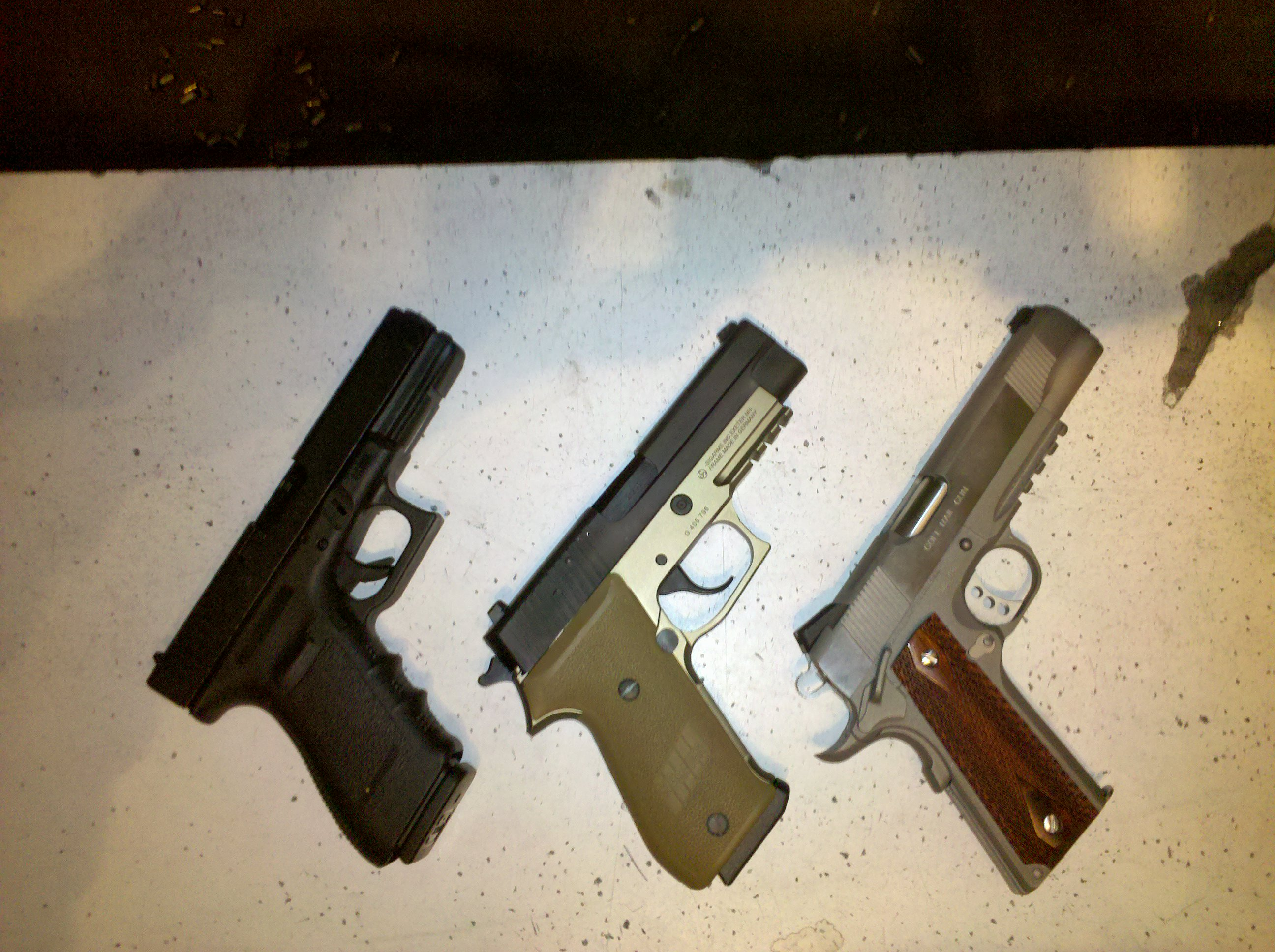 Caliber .45 ACP Pistols. From left to right: Glock 21, Sig Sauer P220 Combat, Colt 1911 Rail Gun.